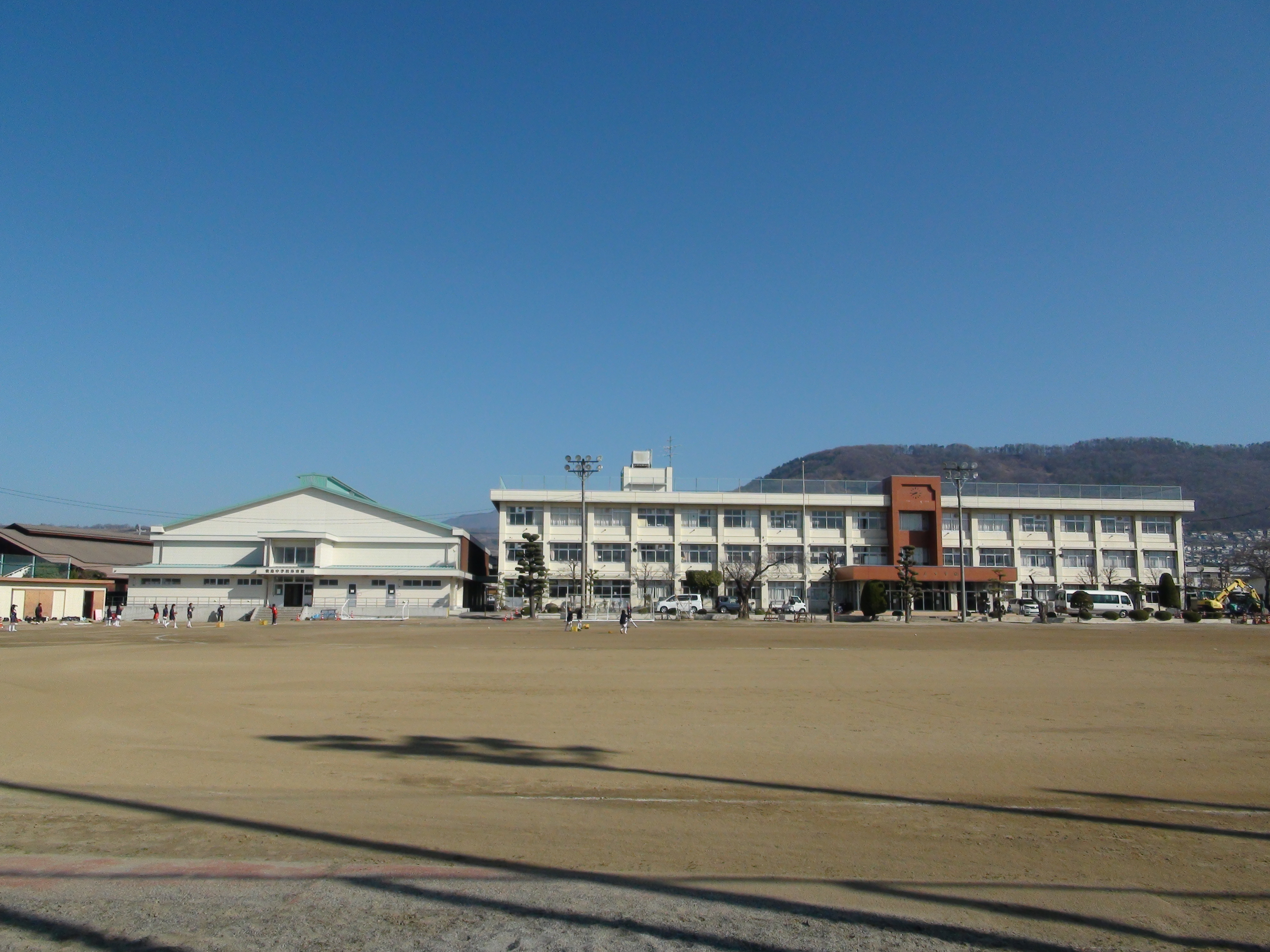 Shikishima Junior High School Kai City